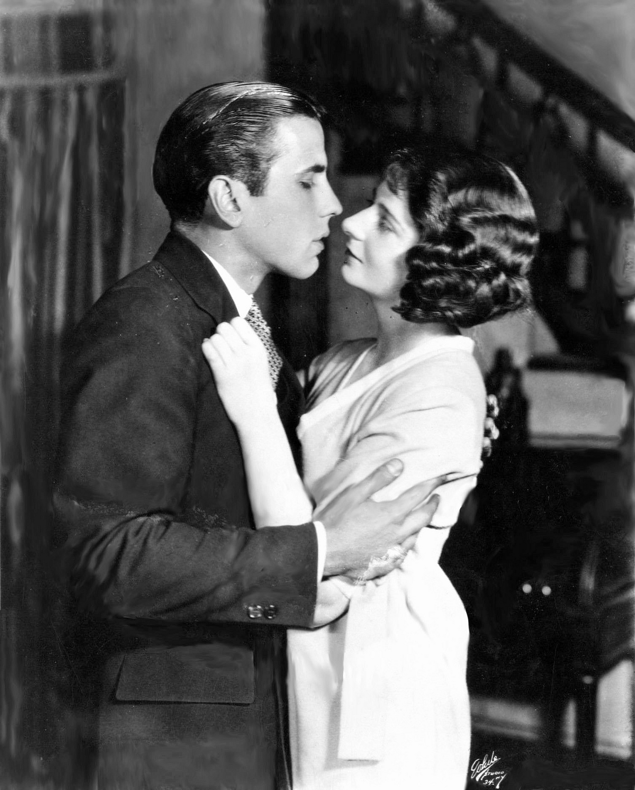 Humphrey Bogart & Shirley Booth performs in Broadway play Hell's Bells (1925)